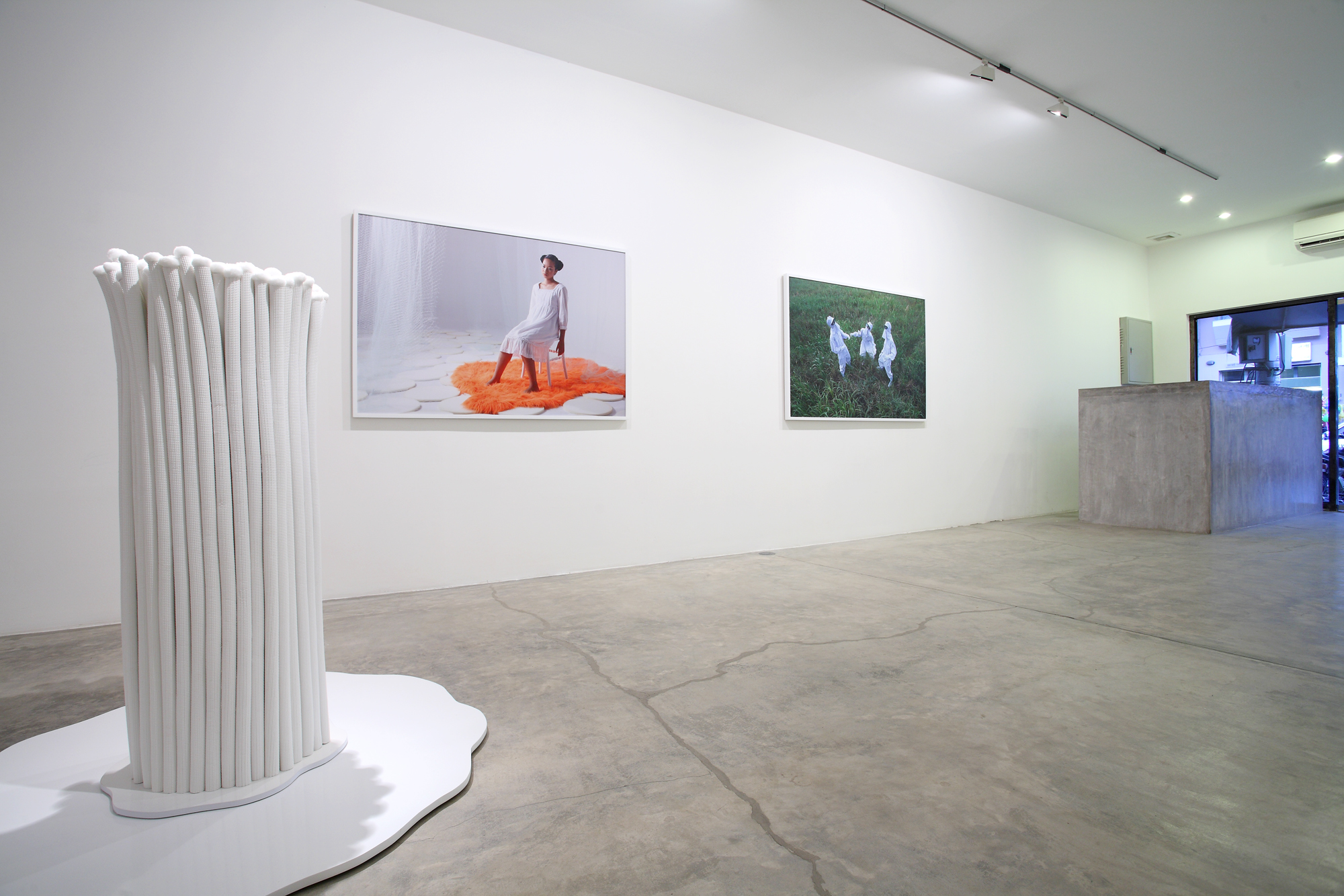 photo of gallery space, featuring some artwork by Tiffany Chung